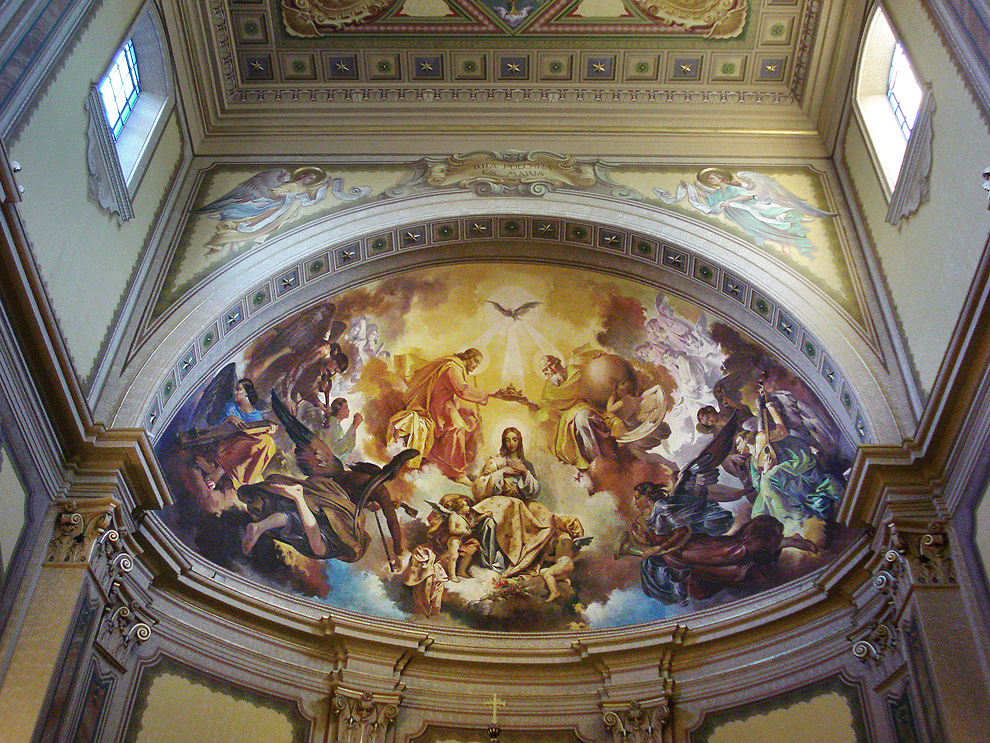 Coronation of the Virgin at Cathedral of Santa Maria, Brazil